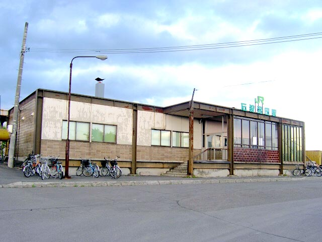 Ishikarinumata Station on Rumoi Main Line, Japan